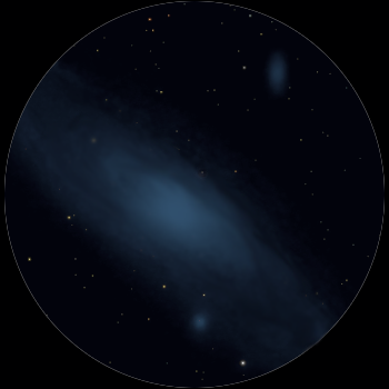 M31